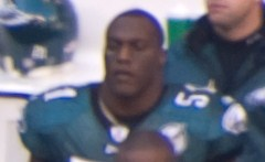 Flag raising ceremony before a Philadelphia Eagles/Dallas Cowboys game at Texas Stadium.